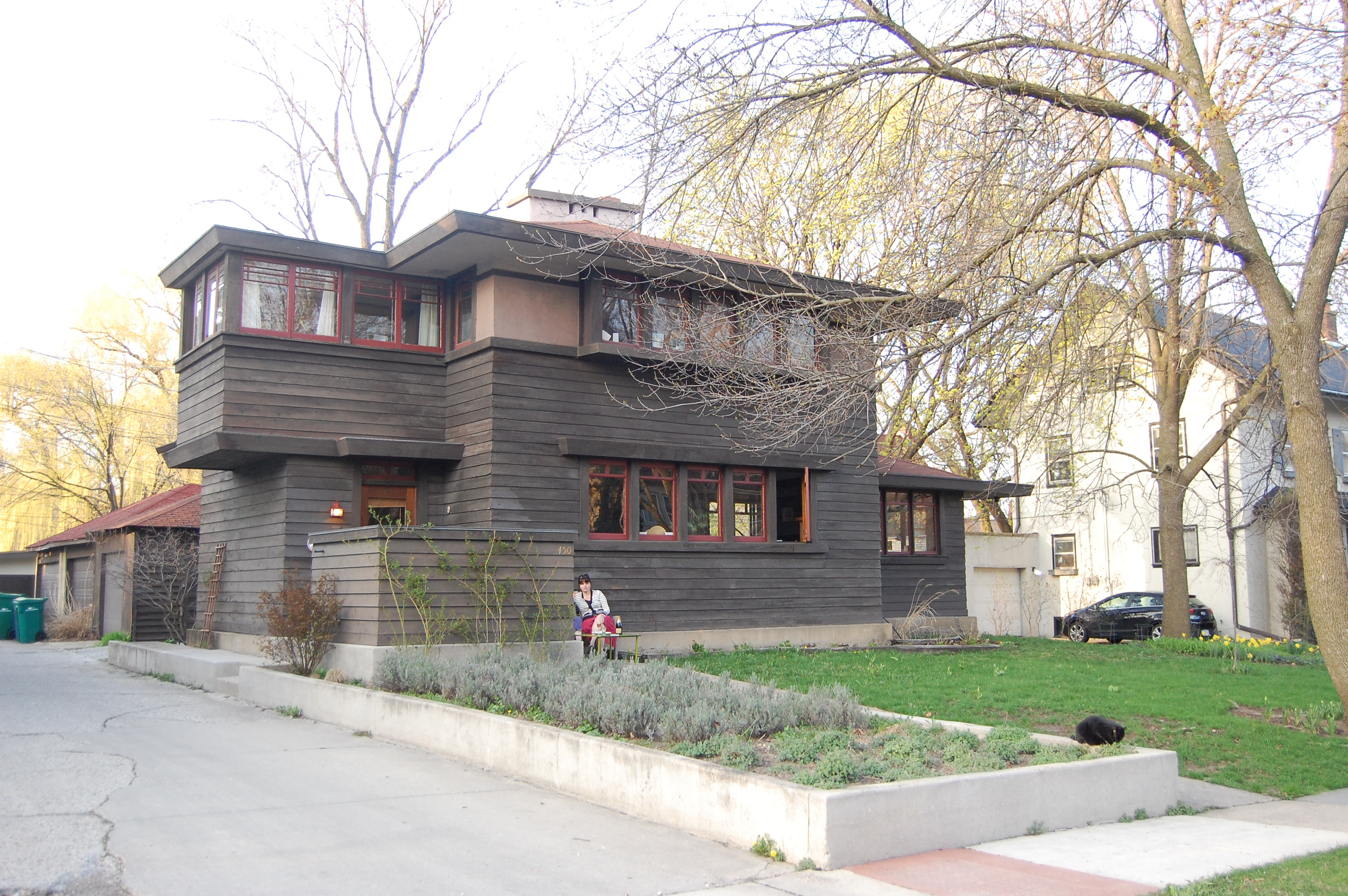 A picture of the Mary Greenlees Yerkes house by JS Van Bergen in April 2013.